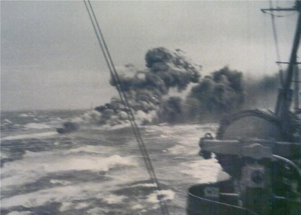 Glowworm on fire in the ongoing battle against Admiral Hipper